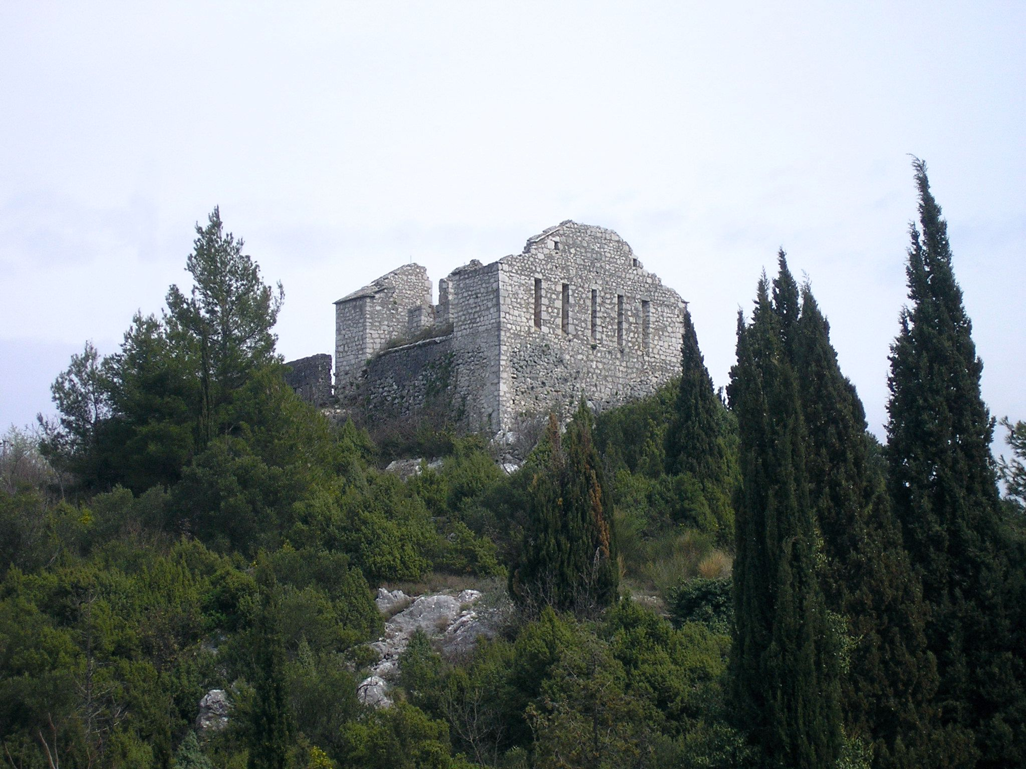 Old town Brštanik (Opuzen)